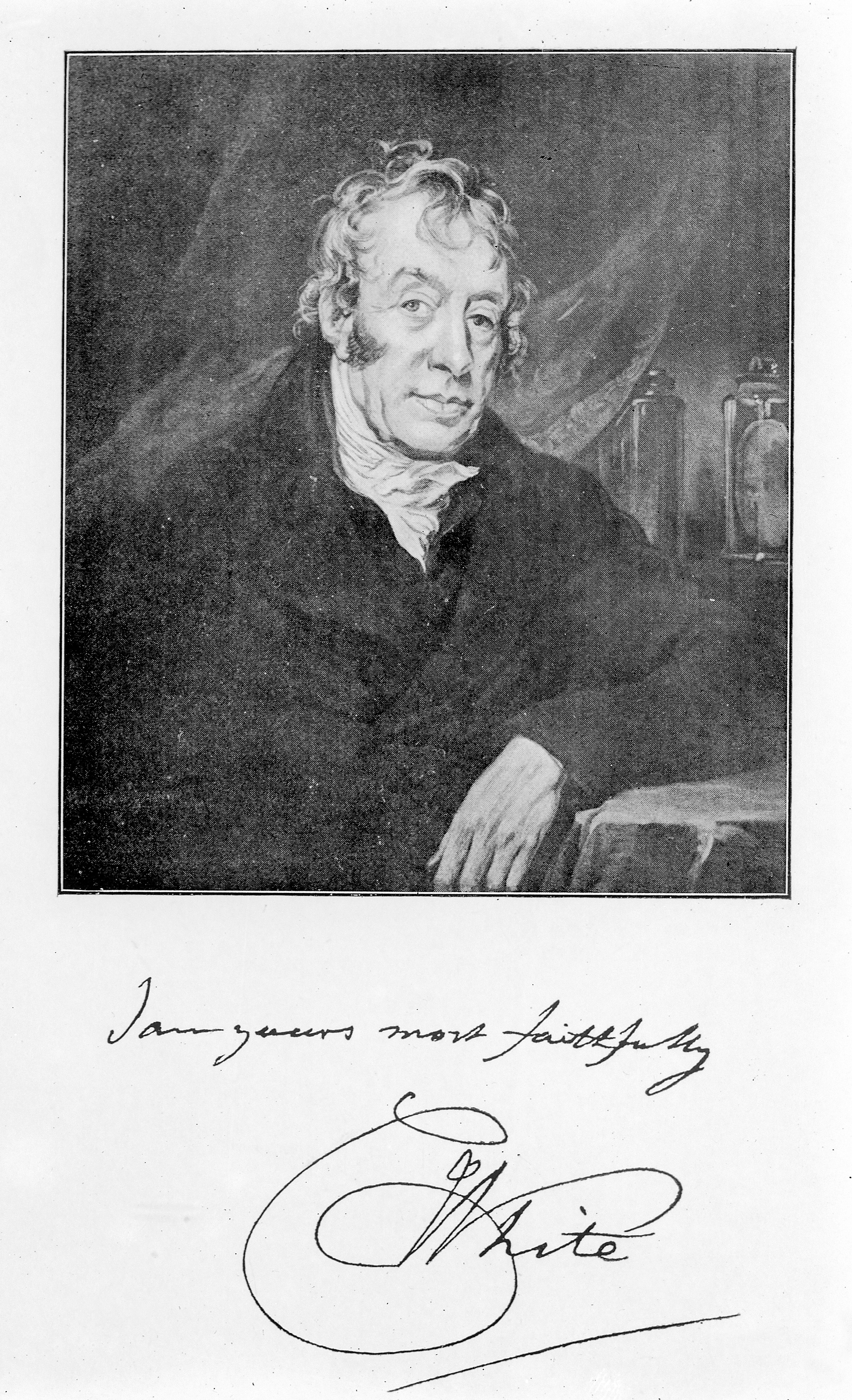 Portrait of Charles White of Manchester, half-length, with autograph signature below. Wellcome Images Keywords: Charles White